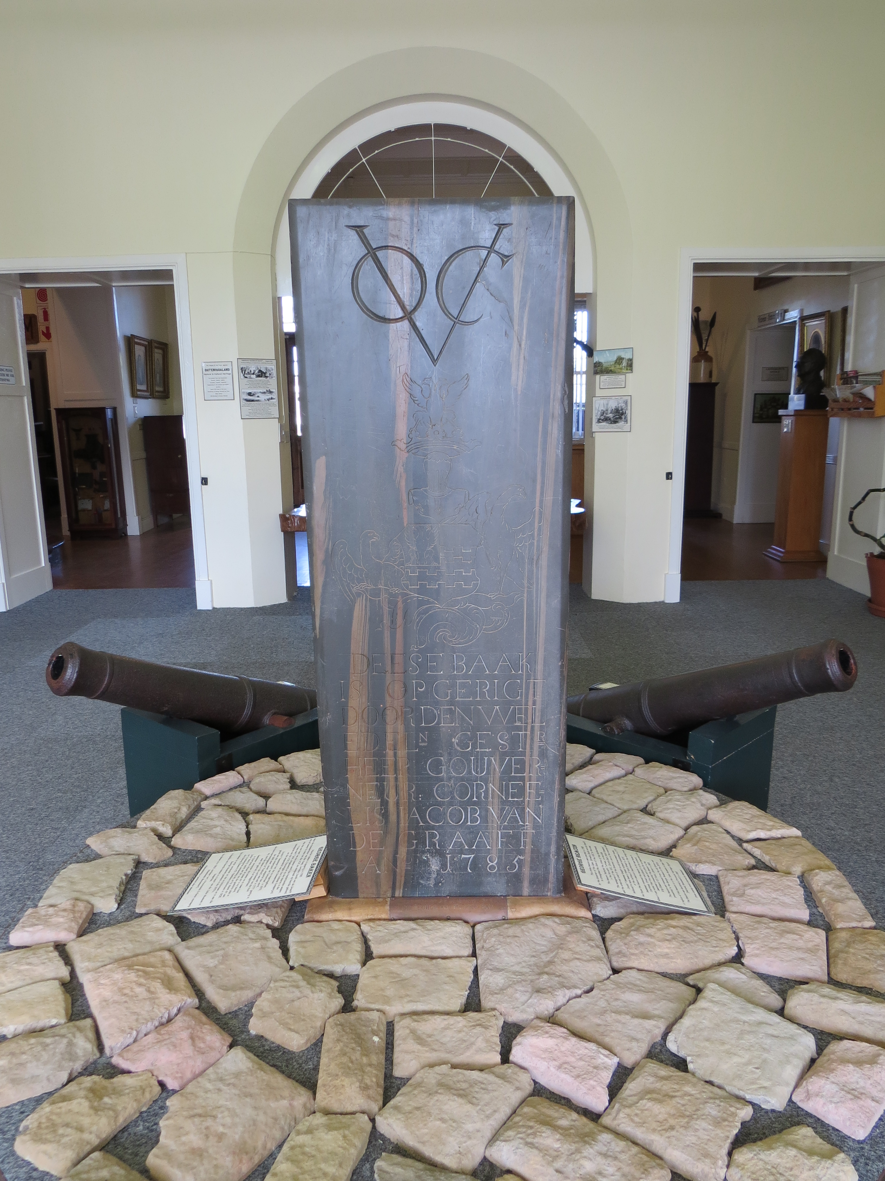 VOC Beacon, George Museum, George This media shows a South African Protected Site with SAHRA file reference 9/2/030/0017.